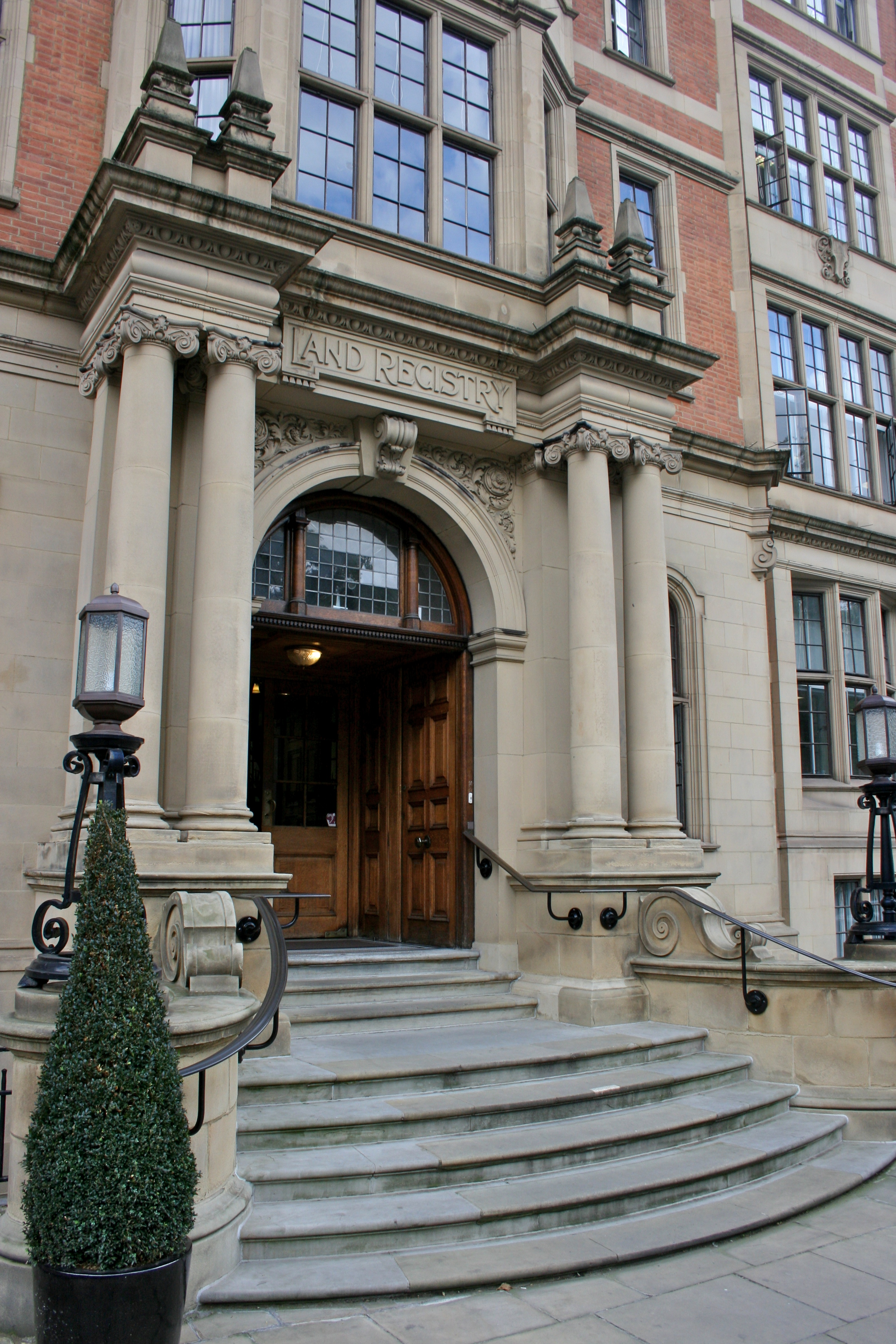 HM Land Registry entrance way. Lincoln's Inn Fields.